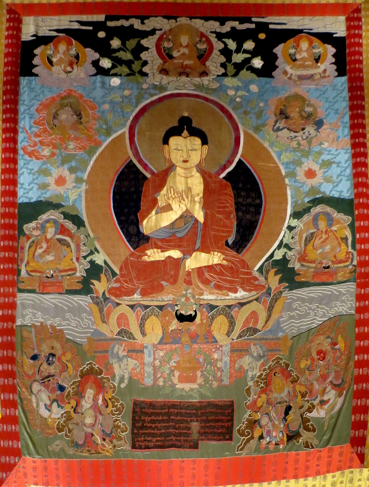 Future Buddha Maitreya Flanked by the Eighth Dalai Lama and His Tutor, Tibet, 1792-94, appliquéd silk, Norton Simon Museum